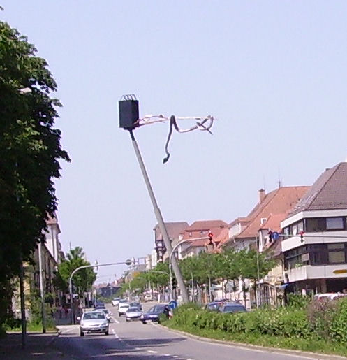 sight of Ludwigsburg with sculpture Schlangenskulptur (1992/1993 ?) by Auke de Vries in Ludwigsburg, Germany